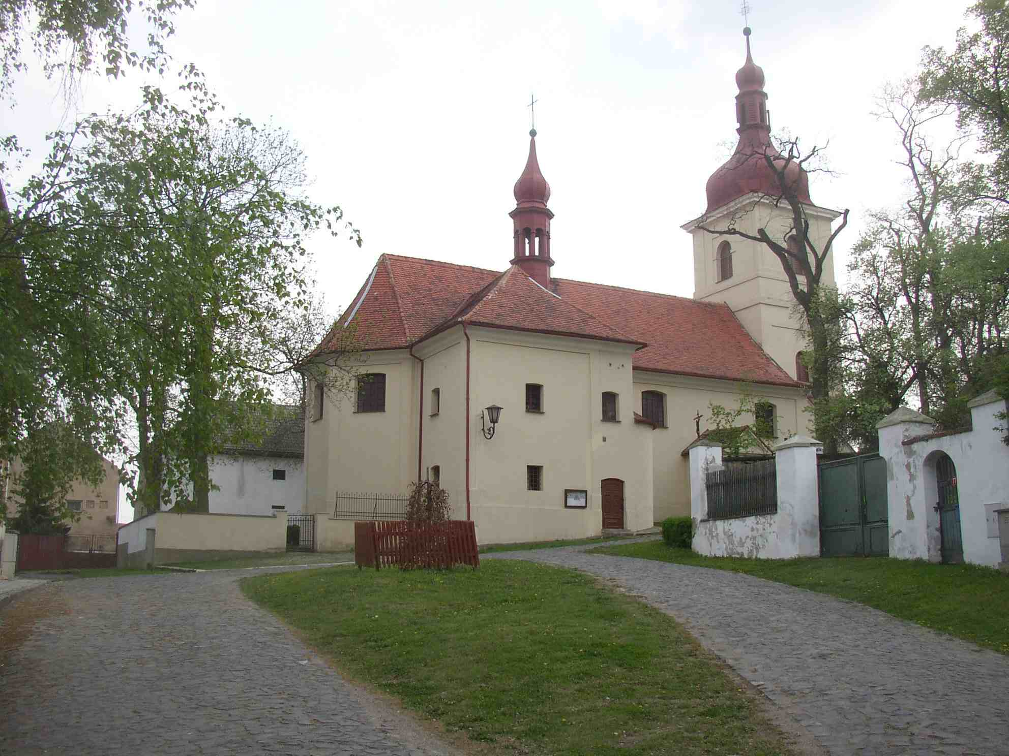 Church of St Wenceslas in Třebívlice, Czech Republic.